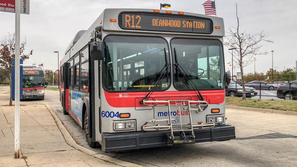 WMATA New Flyer DE40LF 6004 operating on the R12